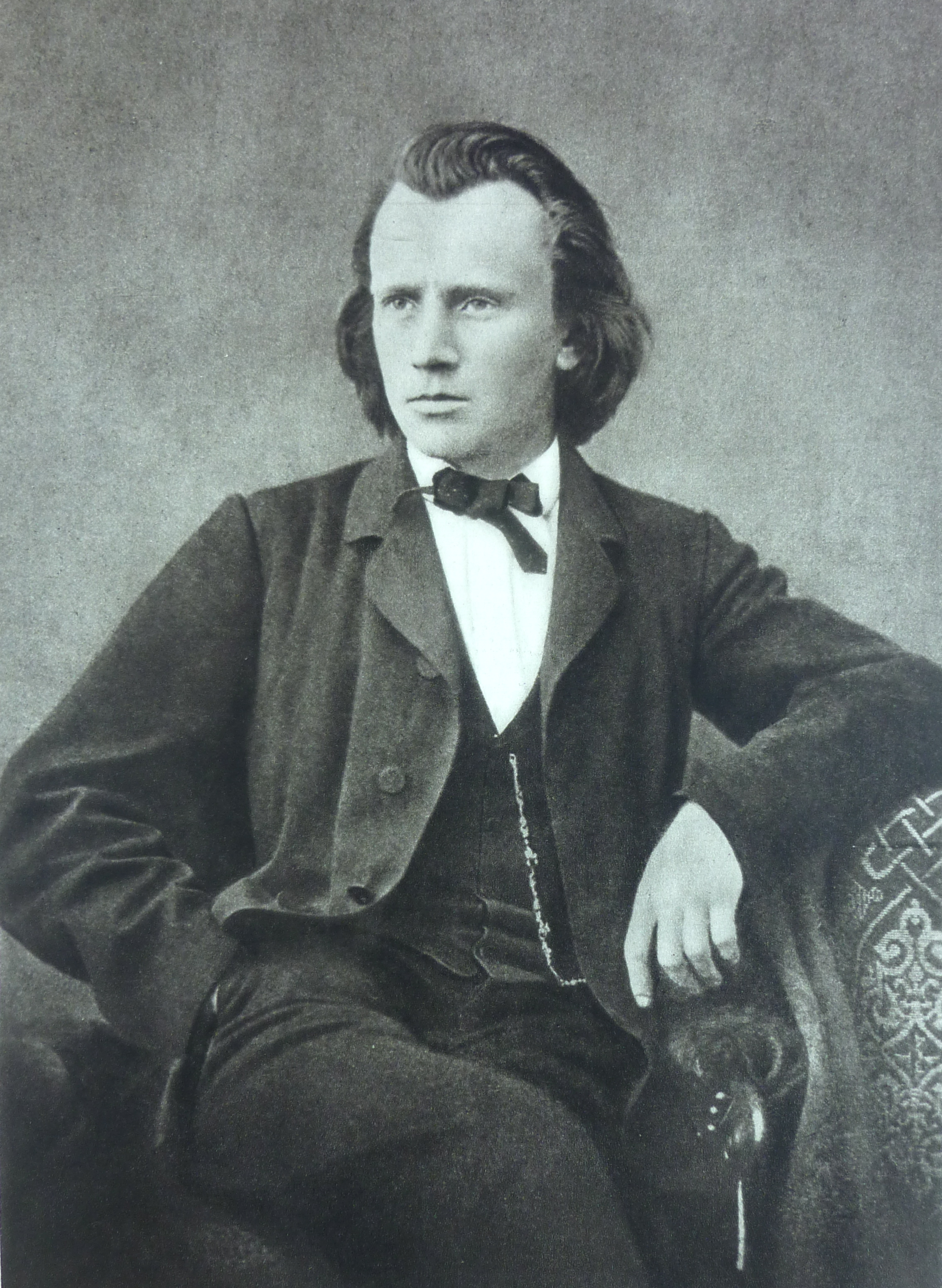 Johannes Brahms (1833–1897) Alternative names Marks, G. W. (Pseudonym); Würth, Karl (Pseudonym)DescriptionGerman composer and pianistDate of birth/death 7 May 1833 3 April 1897Location of birth/death Hamburg ViennaAuthority control : Q7294 VIAF: 7573295 ISNI: 0000 0001 2119 5925 LCCN: n79077221 NLA: 35021249 MusicBrainz: c70d12a2-24fe-4f83-a6e6-57d84f8efb51 WorldCat creator QS:P170,Q7294 um 1866